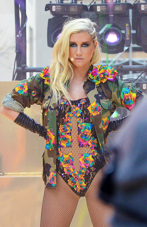 Kesha at The Today Show in New York, NY on November 20, 2012